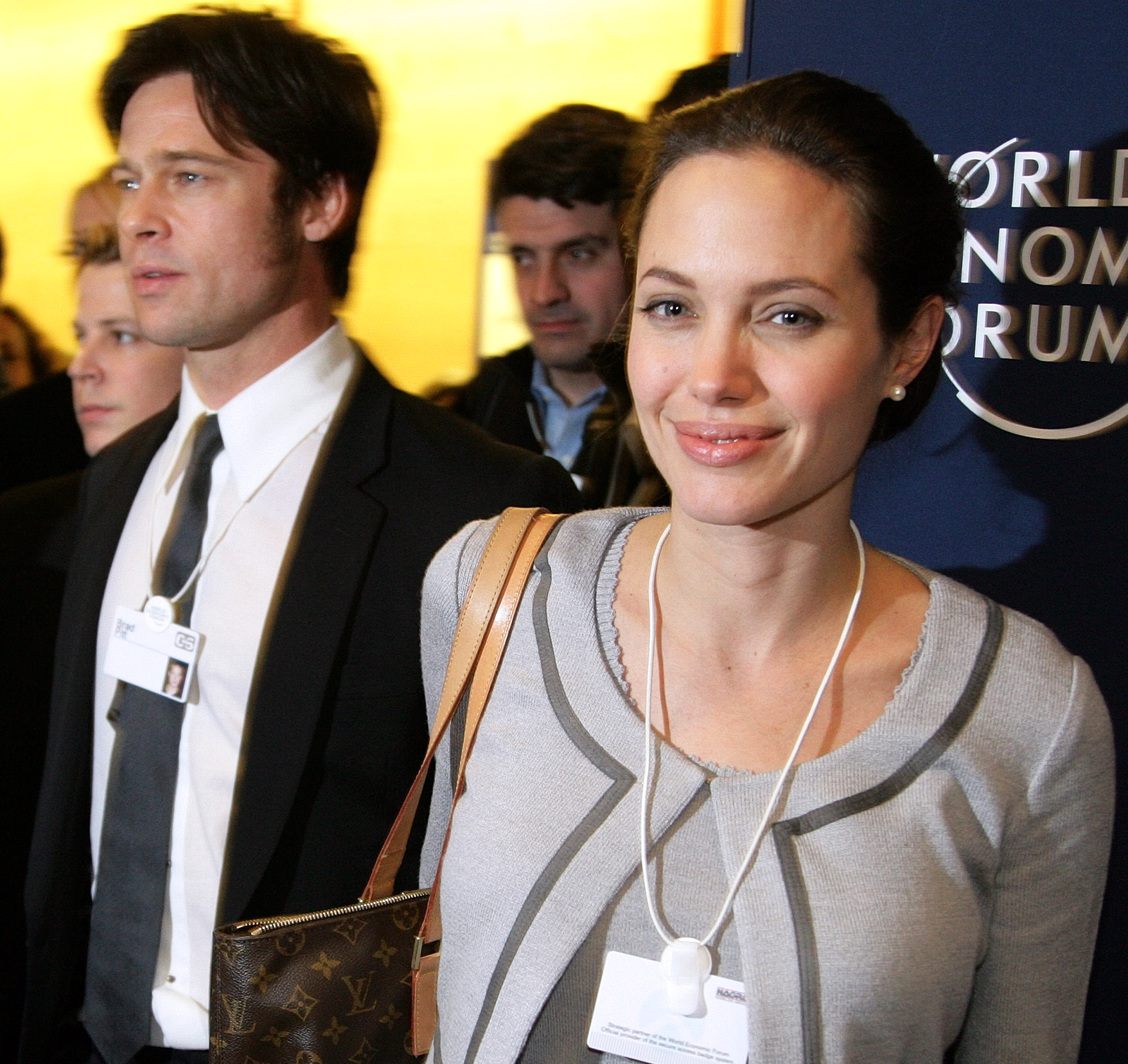 DAVOS/SWITZERLAND, 26JAN06 - FR: Angelina Jolie, UNHCR Goodwill Ambassador, Brad Pitt and Kofi Annan, Secretary-General, United Nations, New York with his spouse leaving the session 'A New Mindset for the UN' at the Annual Meeting 2006 of the World Economic Forum in Davos, Switzerland, January 26, 2006. Copyright by World Economic Forum by Andy Mettler Cropped from Image:Angelina Jolie at Davos2.jpg